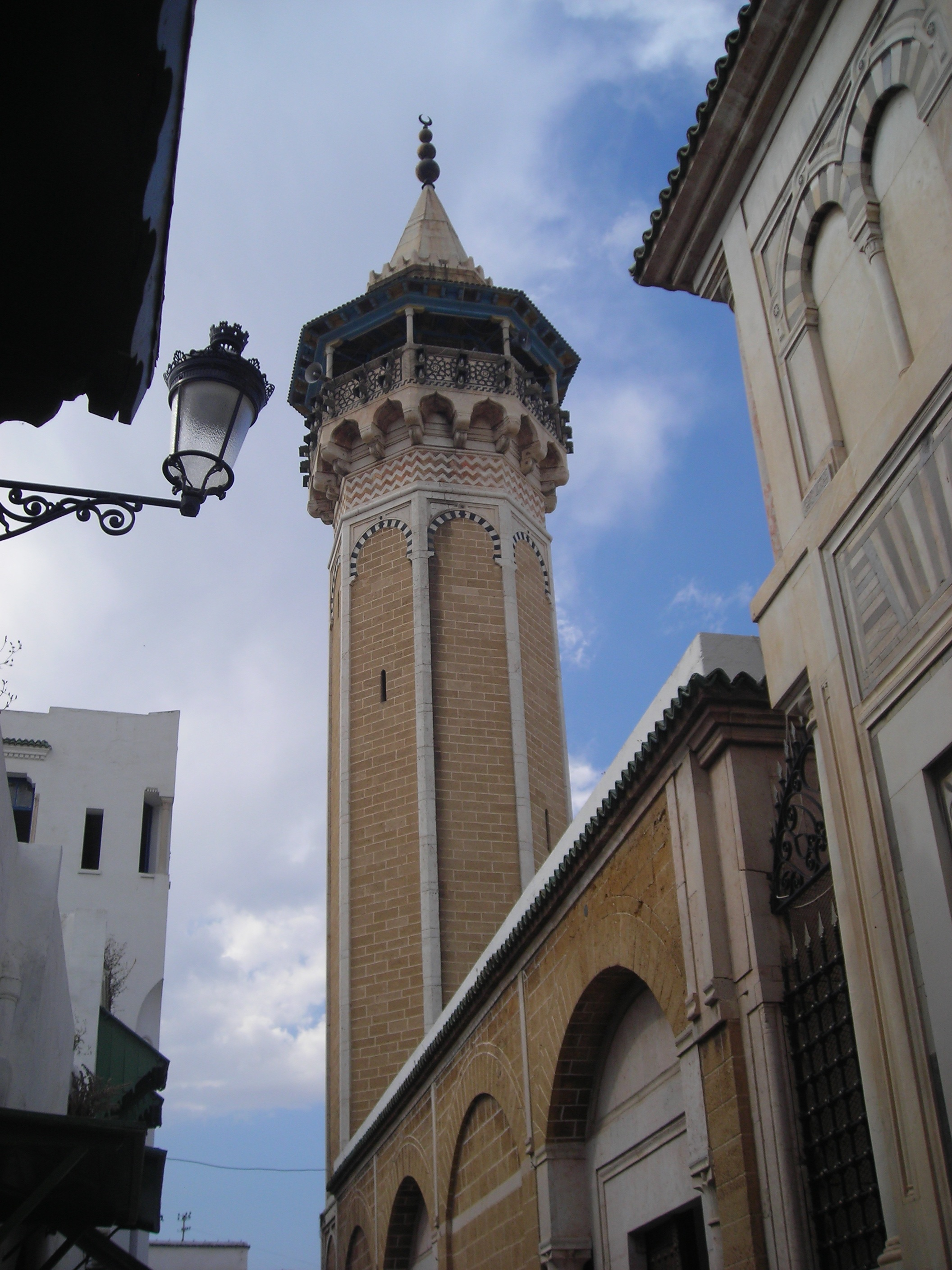 Hamouda Bacha Mosque